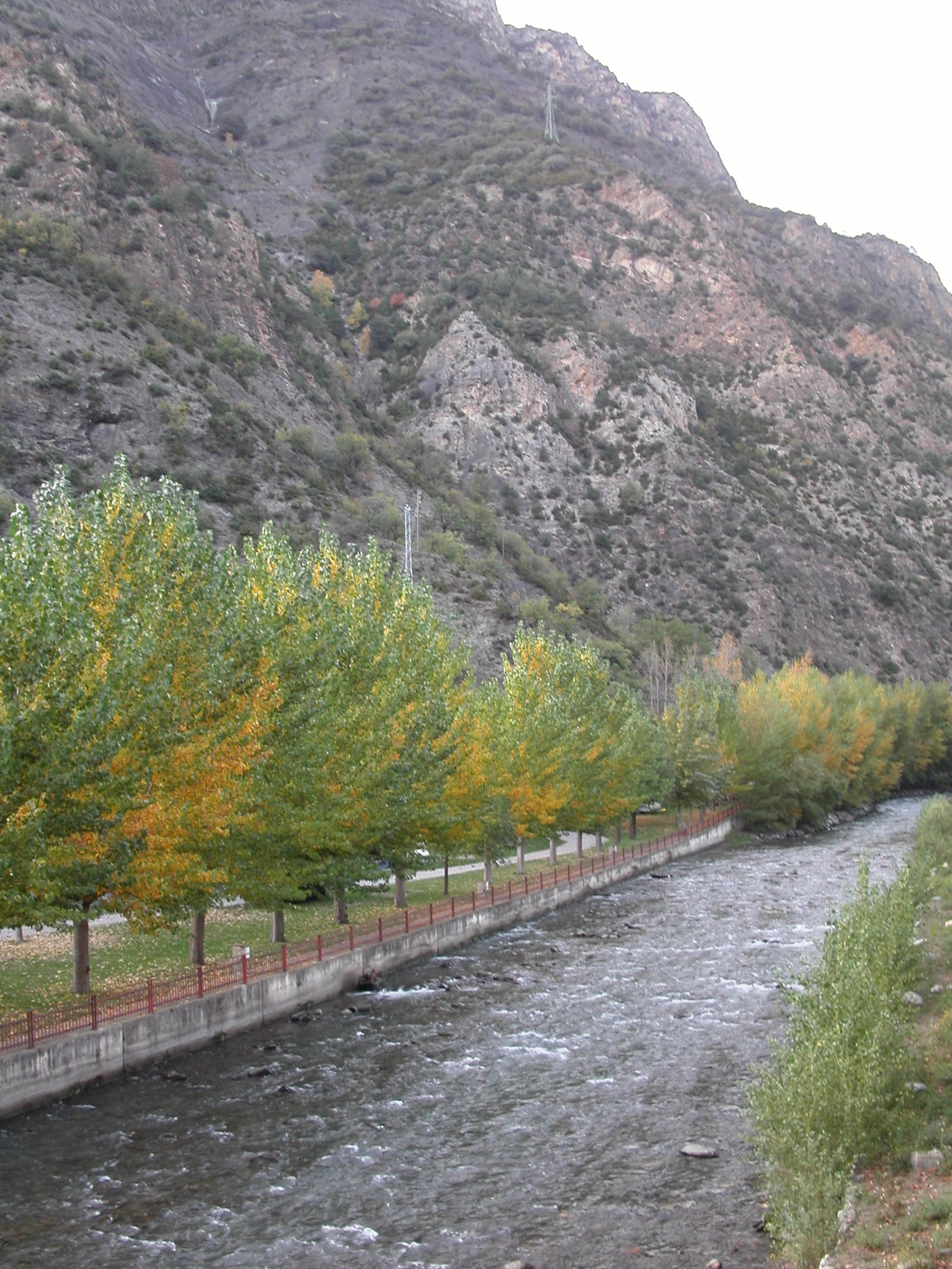 The Gran Valira passing through Sant Julià de Lòria, Andorra